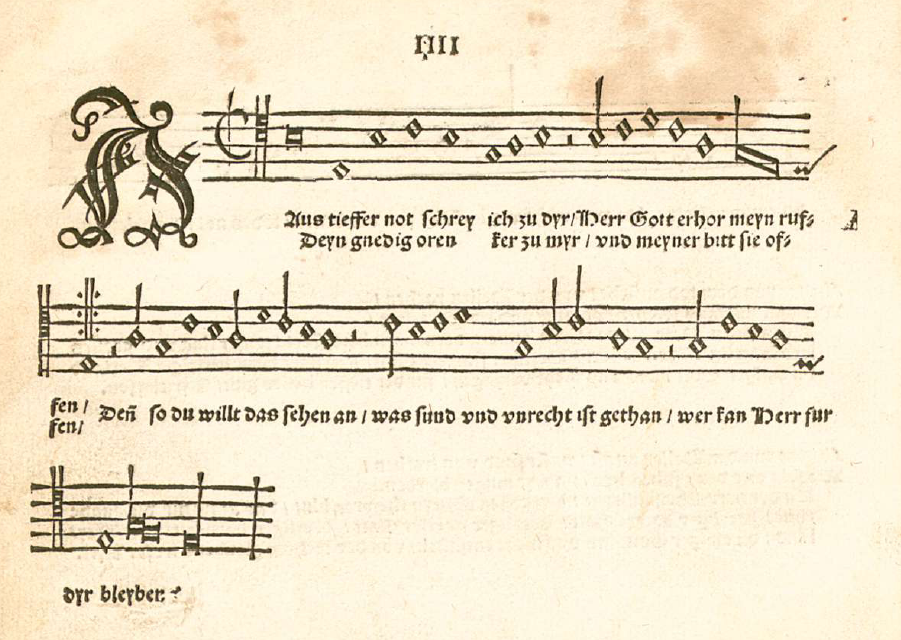 "Aus tiefer Not schrei' ich zu dir" from the 1524 hymnbook of Martin Luther and Johann Walter